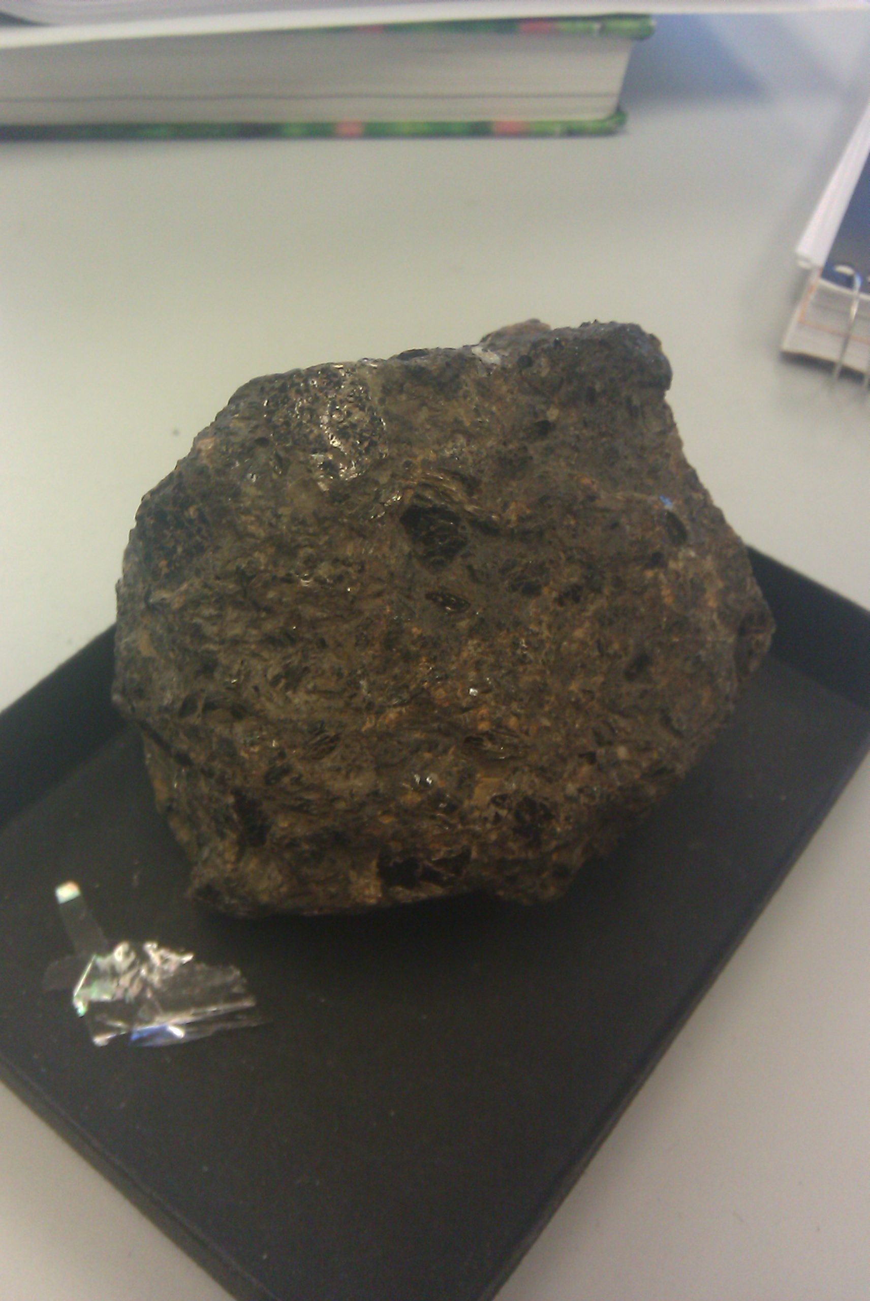 Annite sample.